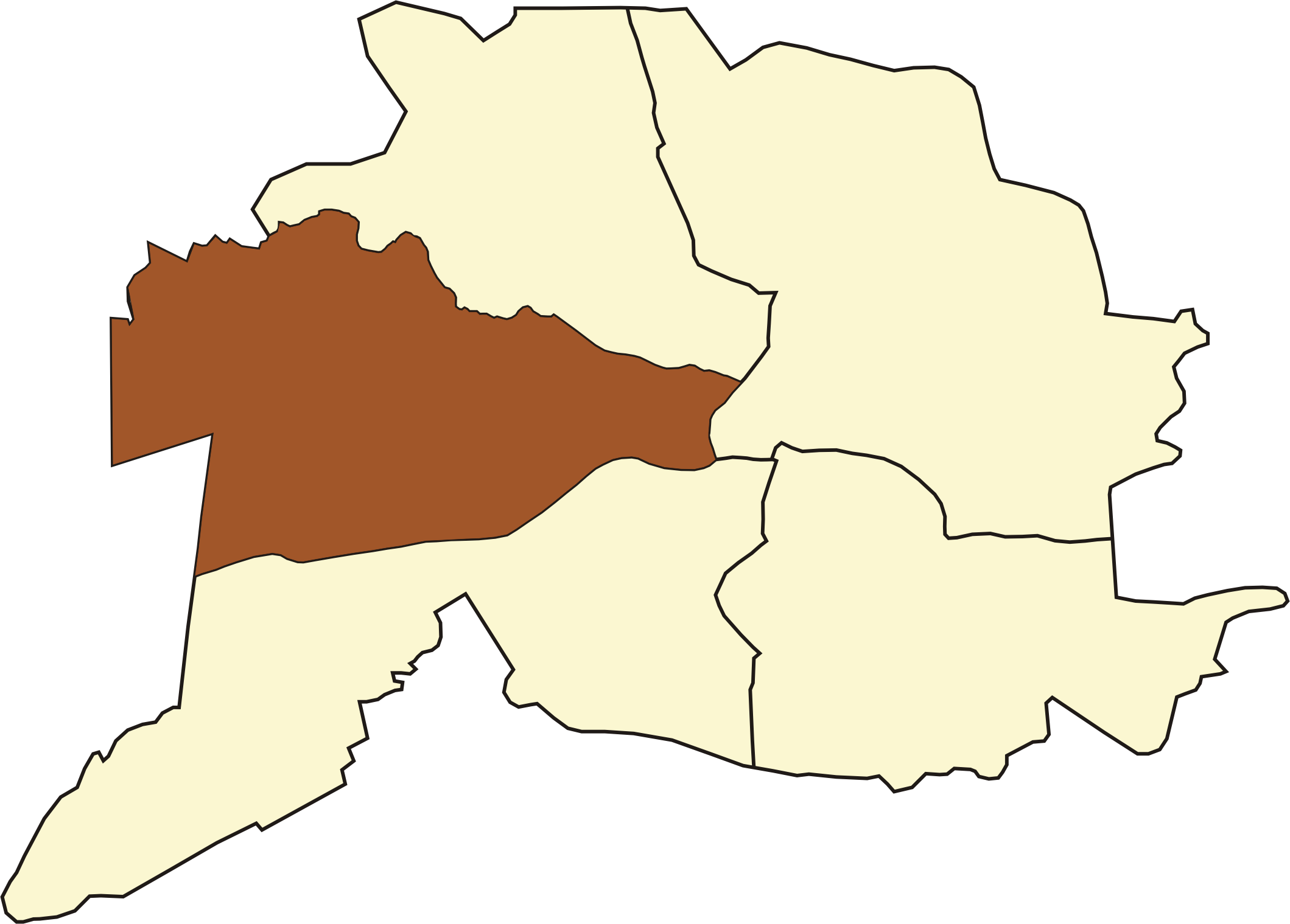 Oktyabrskiy district of Kaliningrad on the map of Kaliningrad.